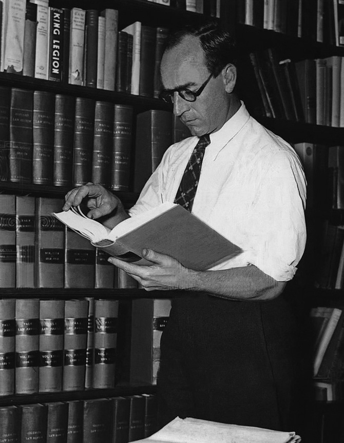 Prof. Karl Nickerson Llewellyn is reading one of his law books in his office at Columbia University